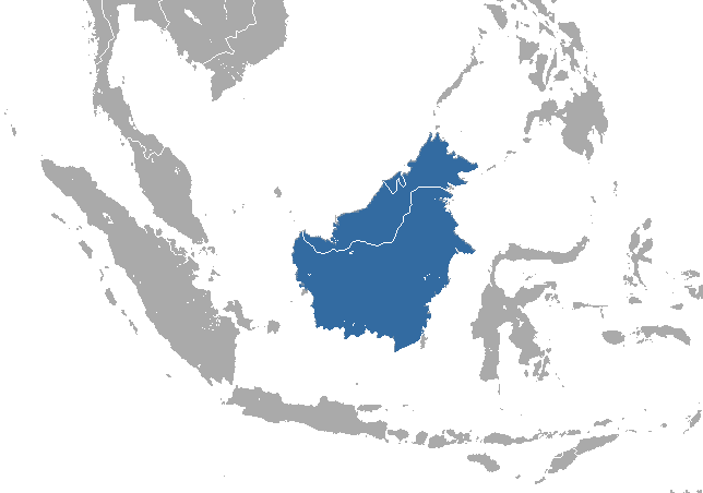 Bornean Shrew (Crocidura foetida) range